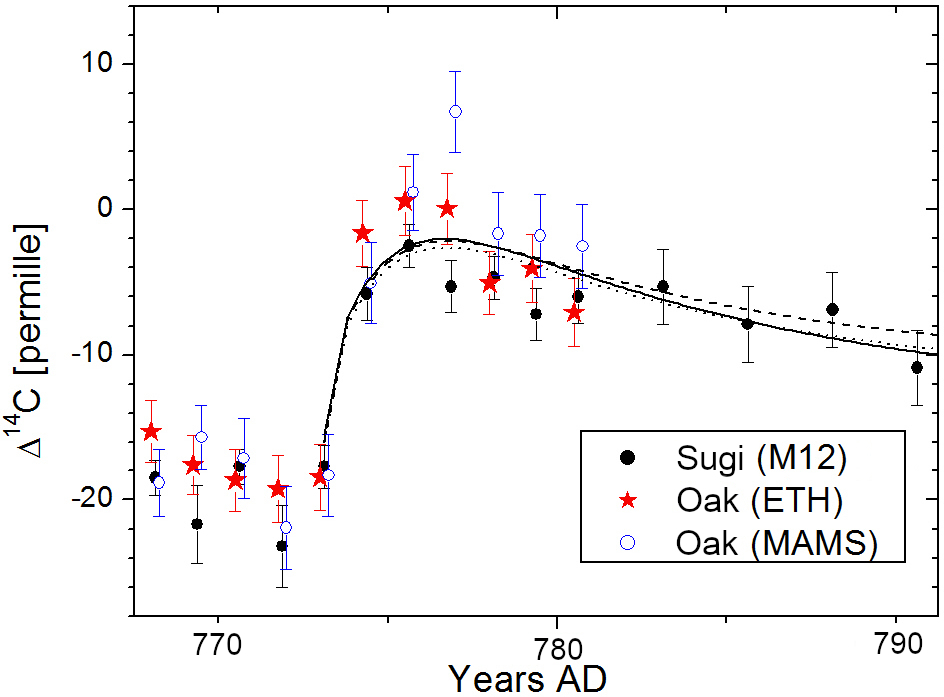 The colored dots with error bars show the C-14 data measured in Japanese (M12) and German (Oak) trees along with the typical profile for the instant production of C-14 (the black curve). Modified after [1].